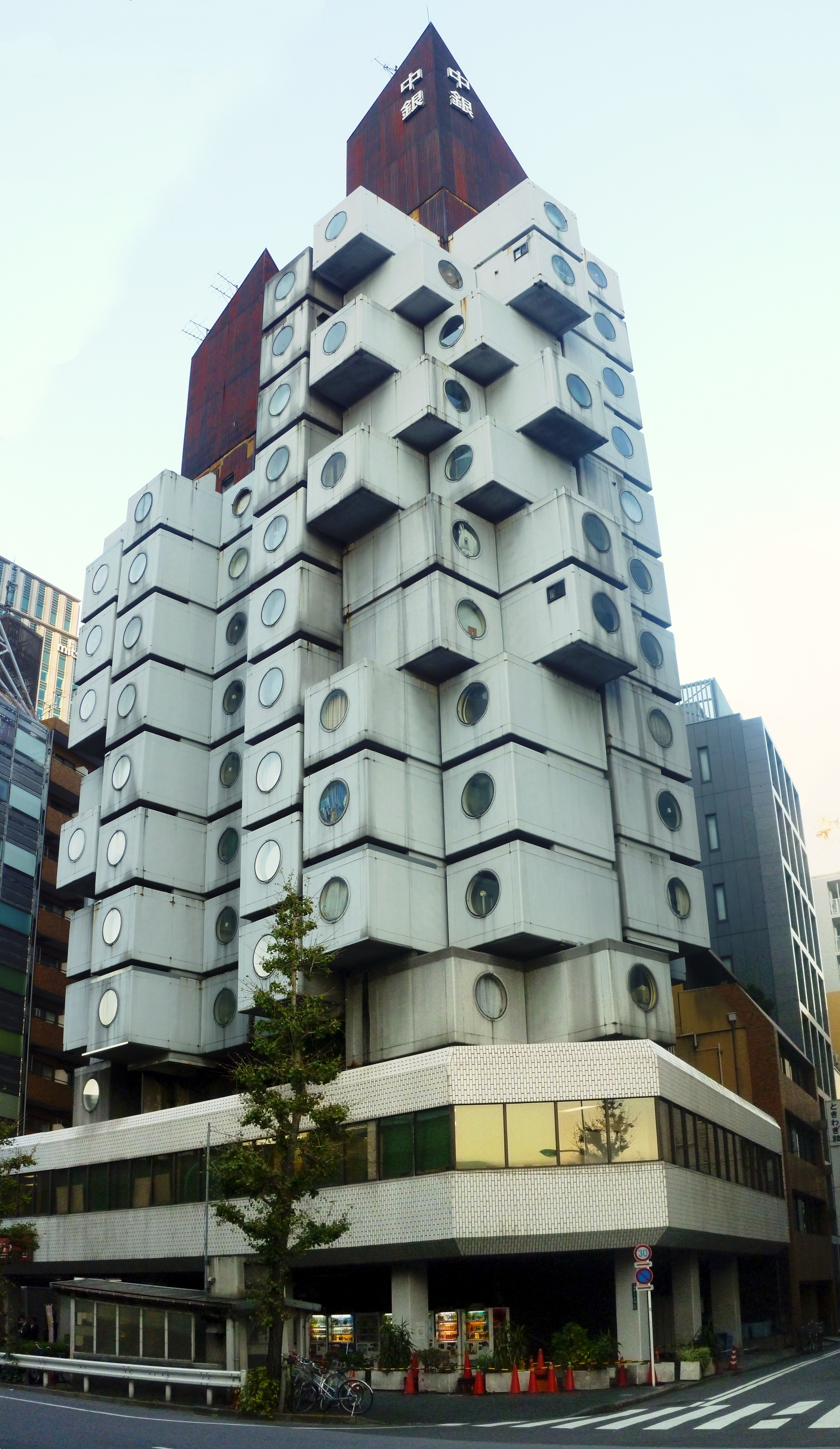 A view of the Nakagin Capsule Tower (中銀カプセルタワー) I took in 2011, but never got around to uploading until now.